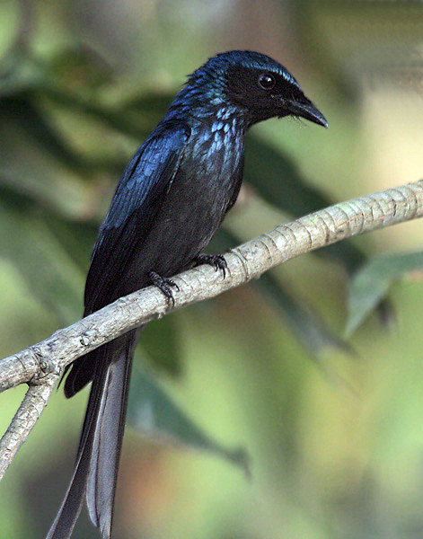 Bronzed Drongo Dicrurus aeneus near Purbasthali in Burdwan District , West Bengal, India.